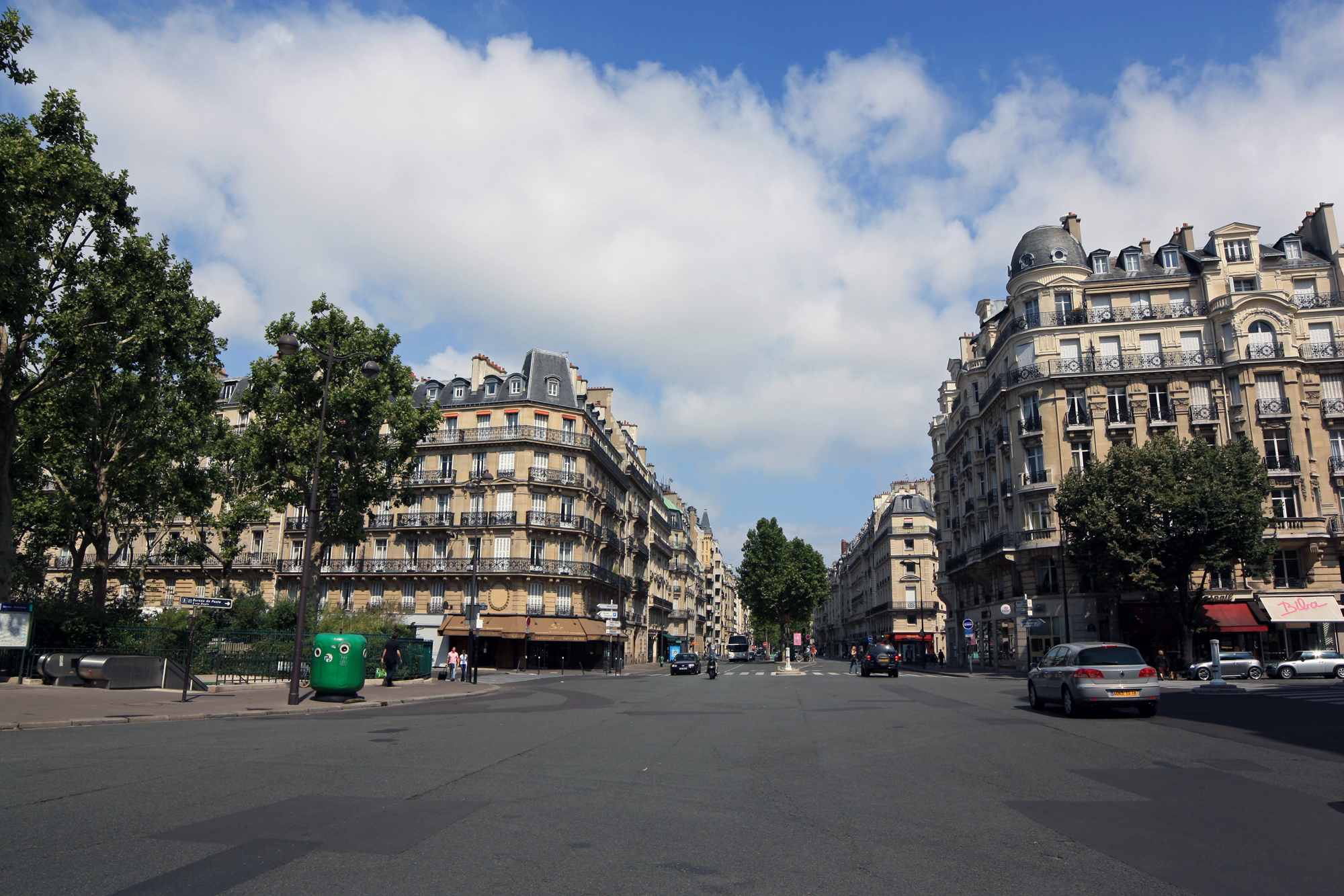 Boulevard Raspail crossing Rue de Sevres and Rue de Babylone and Sevres-Babylone Metro Station at the left